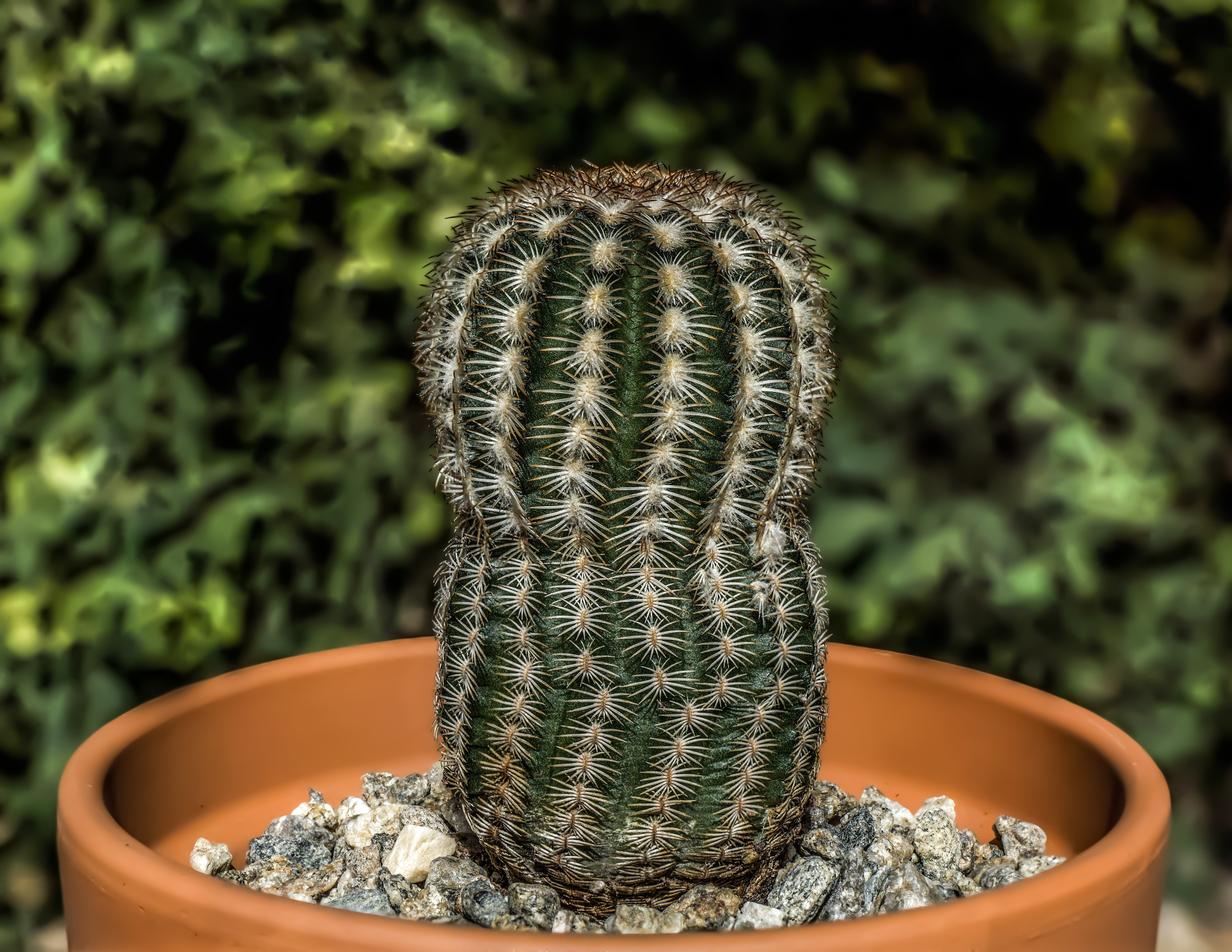 Echinocereus reichenbachii var. reichenbachii, from a focus stack of six macro images. The specimen is approximately 5.8 by 3.4 centimetres (2.3 by 1.3 in).